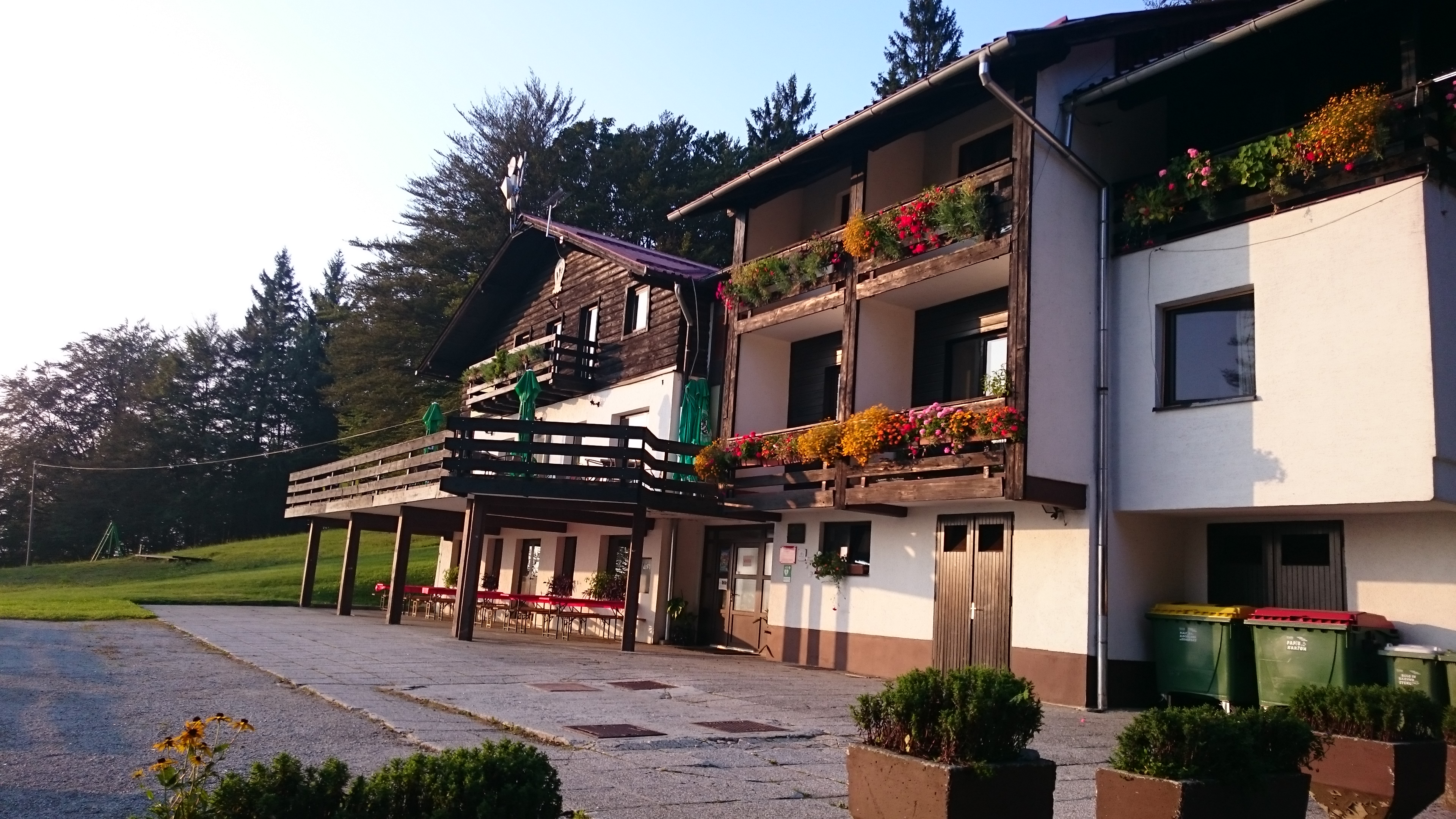 Guest house for hikers on Kal